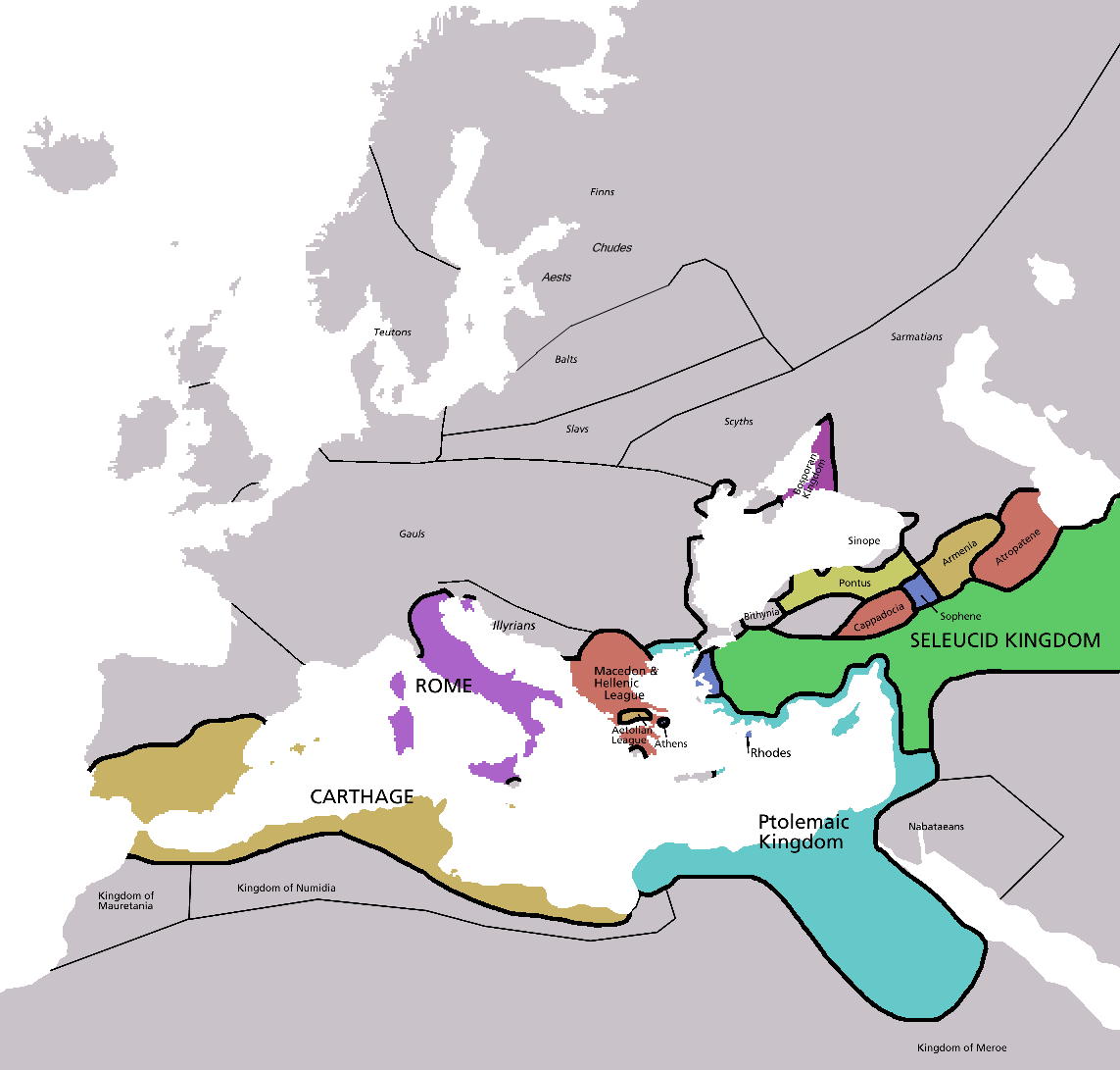 Map of Europe in 220BC, based on free map of europe Image:BlankMap-Europe.png. Many of the border lines are approximations. Information from Penguin atlas of ancient history.